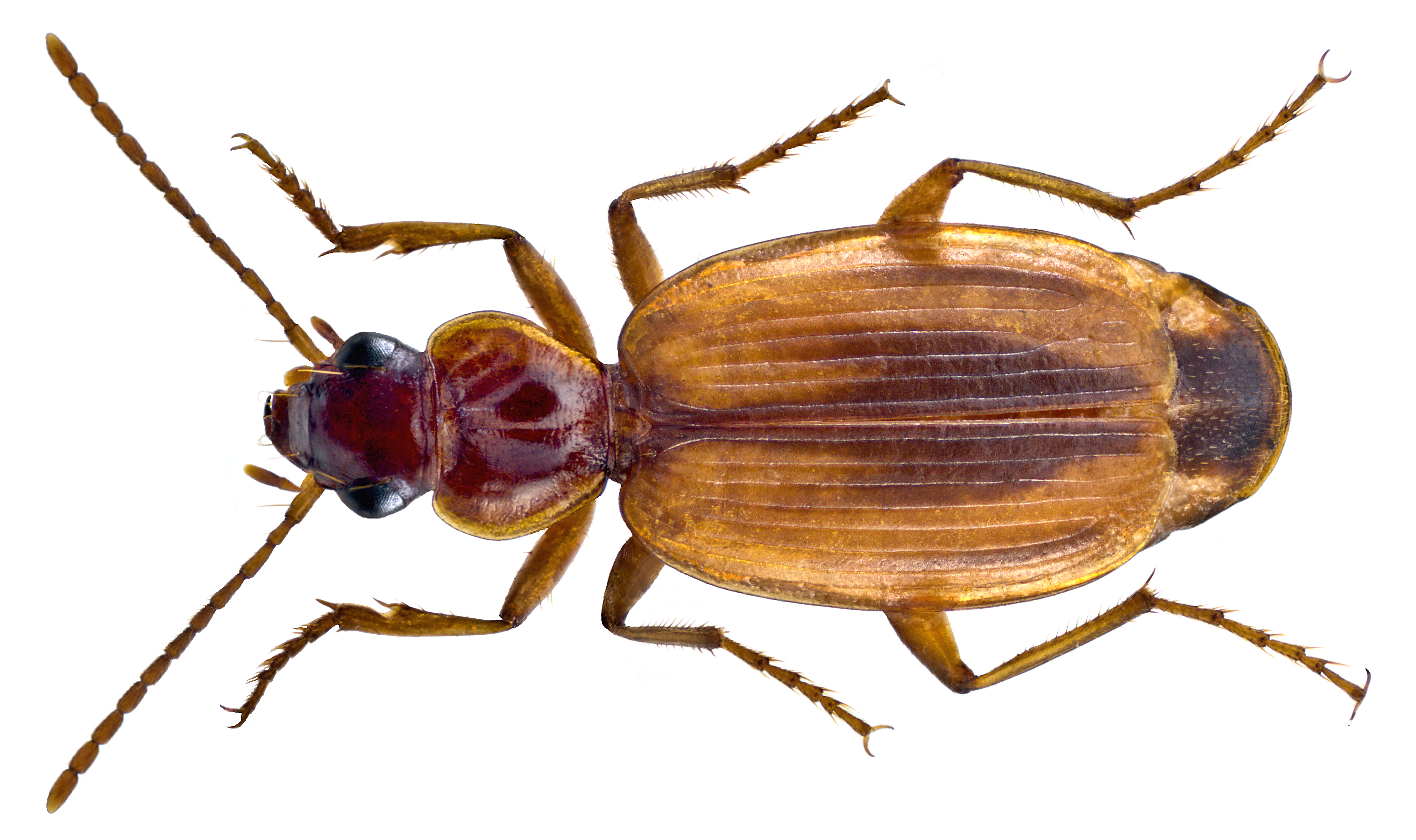 Family: Carabidae Size: 7,3 mm Location: Spain, Canary Islands, Fuerteventura, Costa Calma, Istmo de la Pared leg. J.Schoenfeld, 1.IV.2010; det. Lompe, 2010 Photo: U.Schmidt, 2014